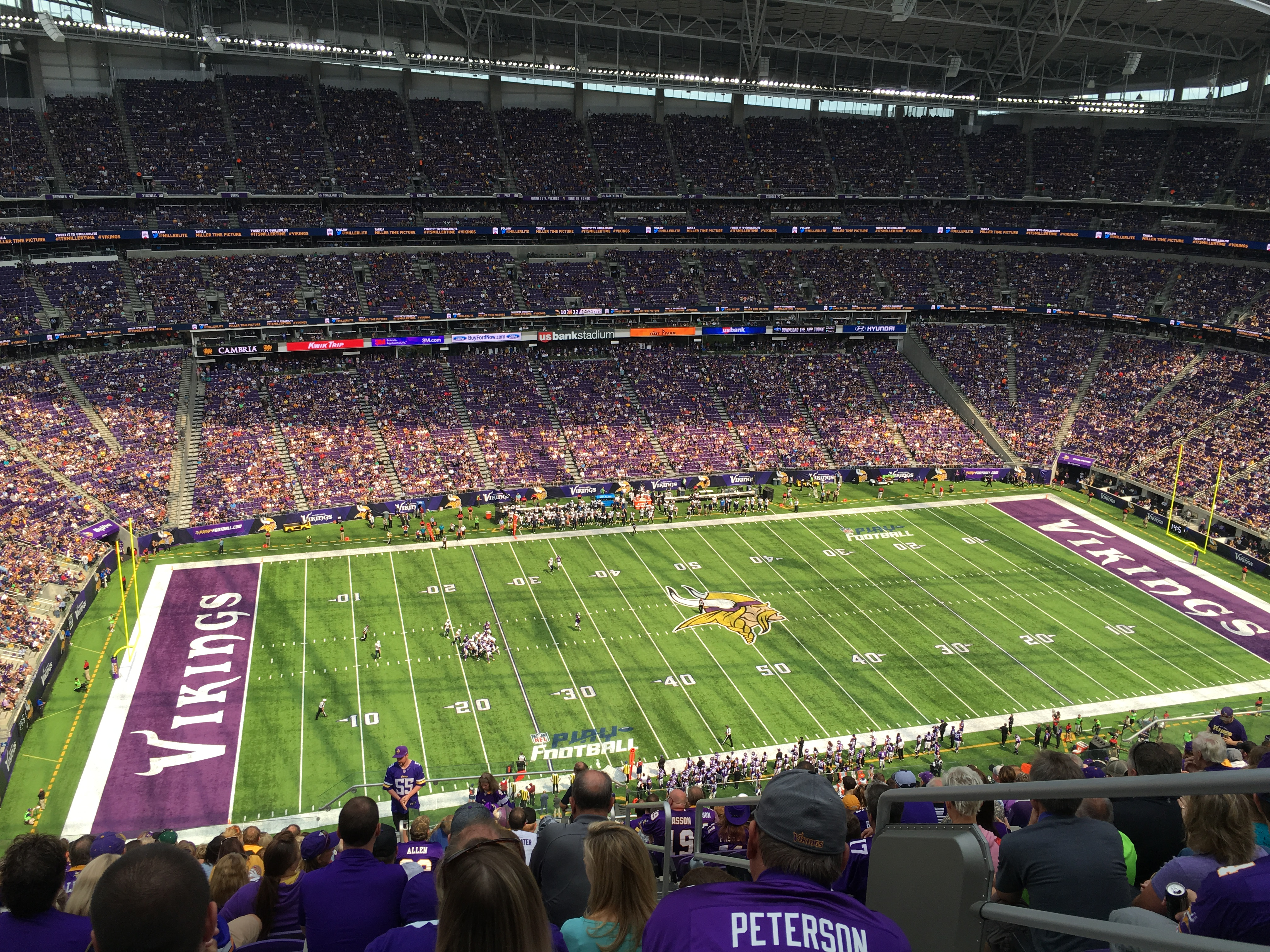 The Vikings hosting the first game in the stadium's history against the Chargers on August 28, 2016.